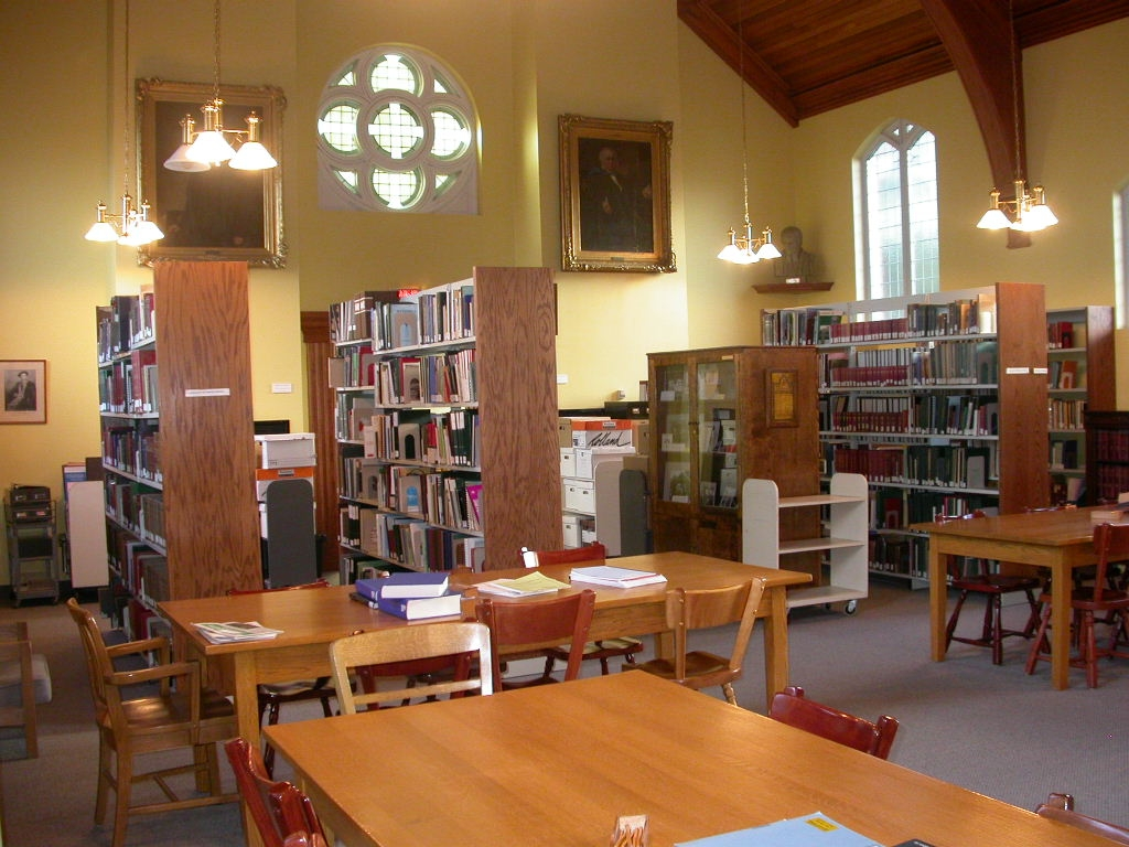 Old Library, Bishop's University